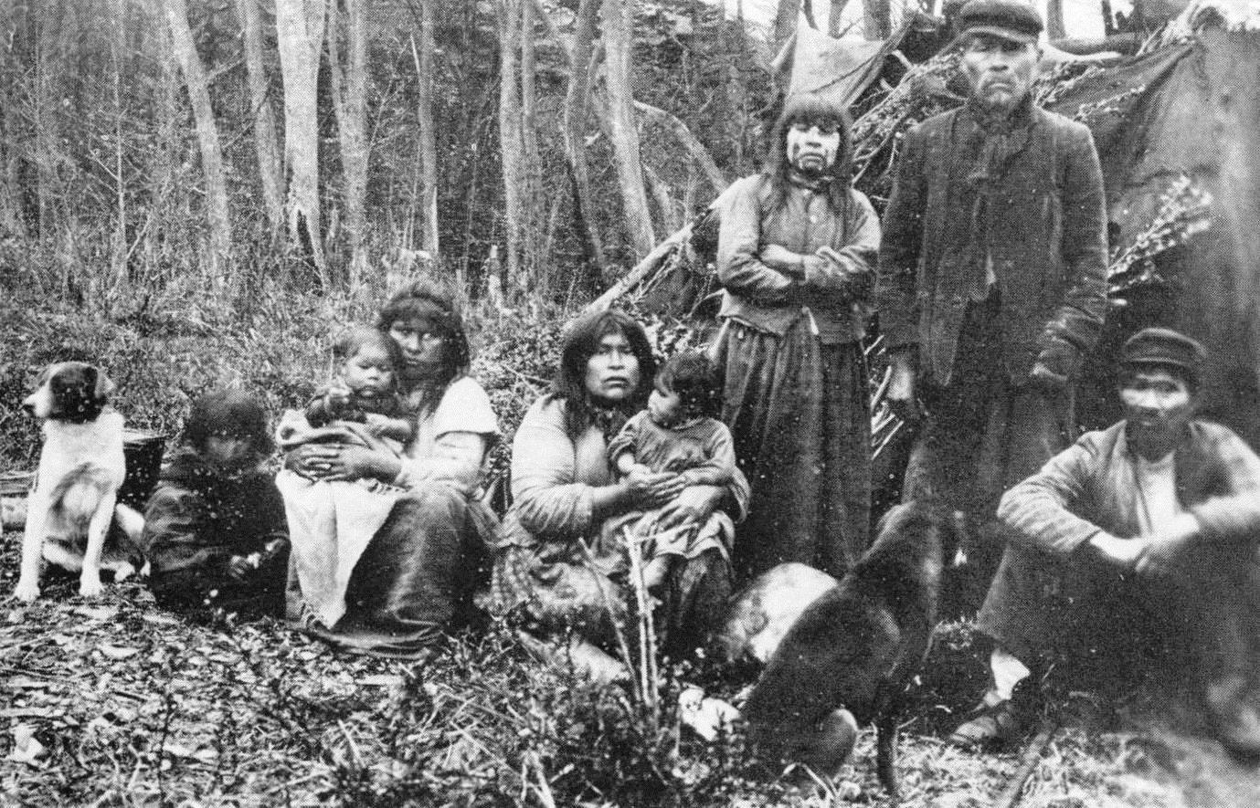 Types of Yahgans, Rio Douglas (Chile). Note primitive beench-bought wigman and mourning face-painting of woman standing